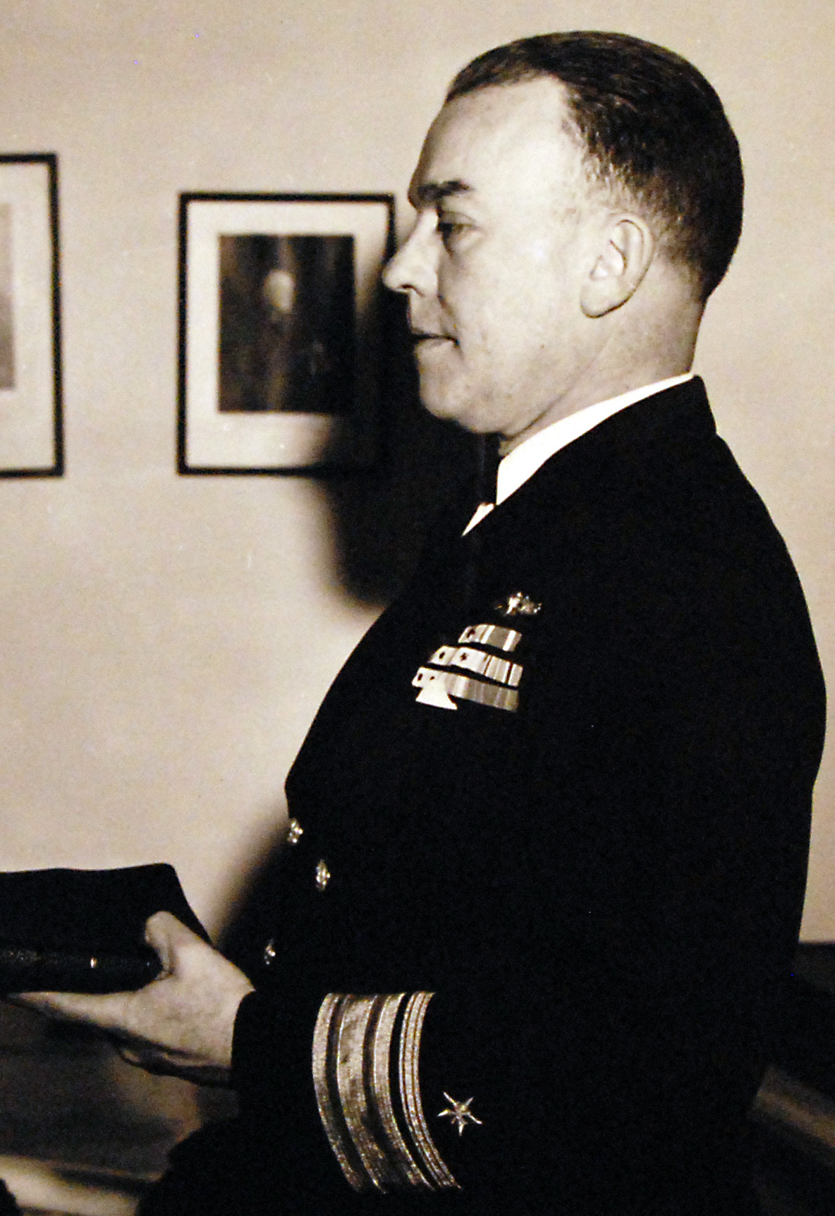 U.S. Navy Judge Advocate General Rear Admiral Oswald Symister Colclough at the White House, Washington, D.C., May 14, 1946.